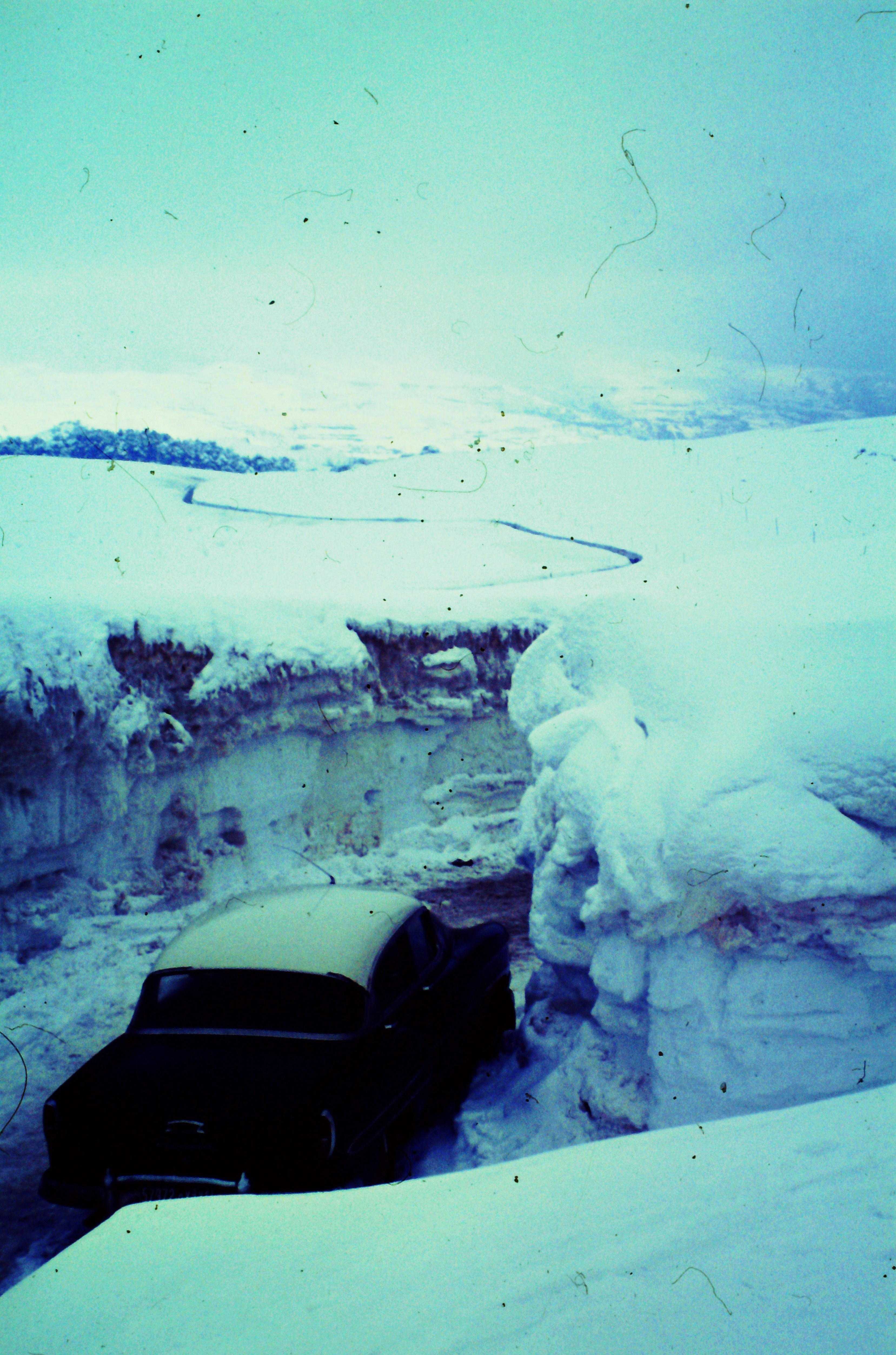 travelling to Cedar (Les Cedres), Anti Lebanon